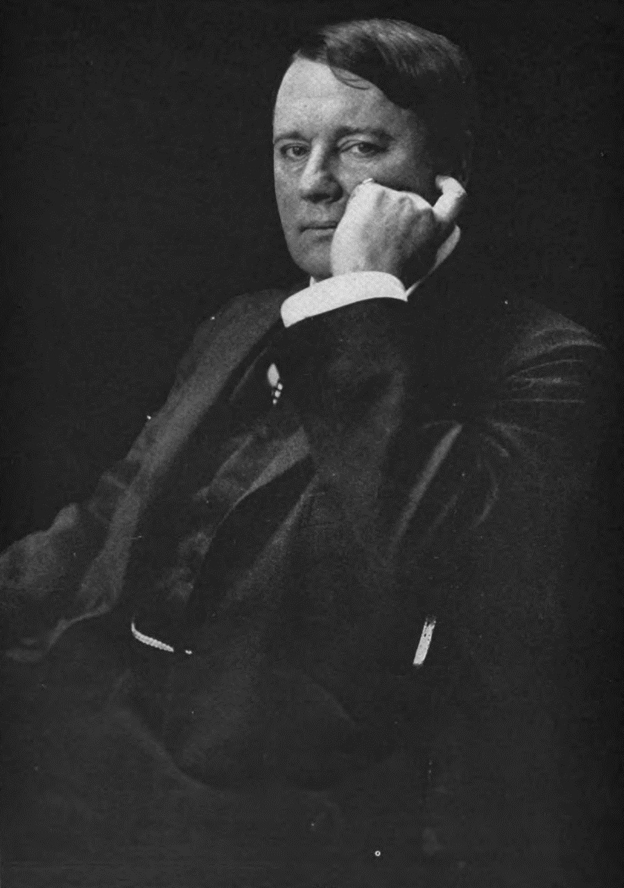 Alfred Harmsworth, 1st Viscount Northcliffe